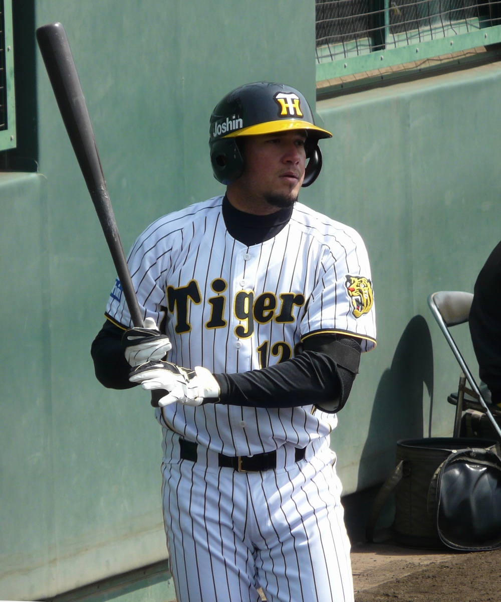 HT-Marcos-Vechionacci20110318